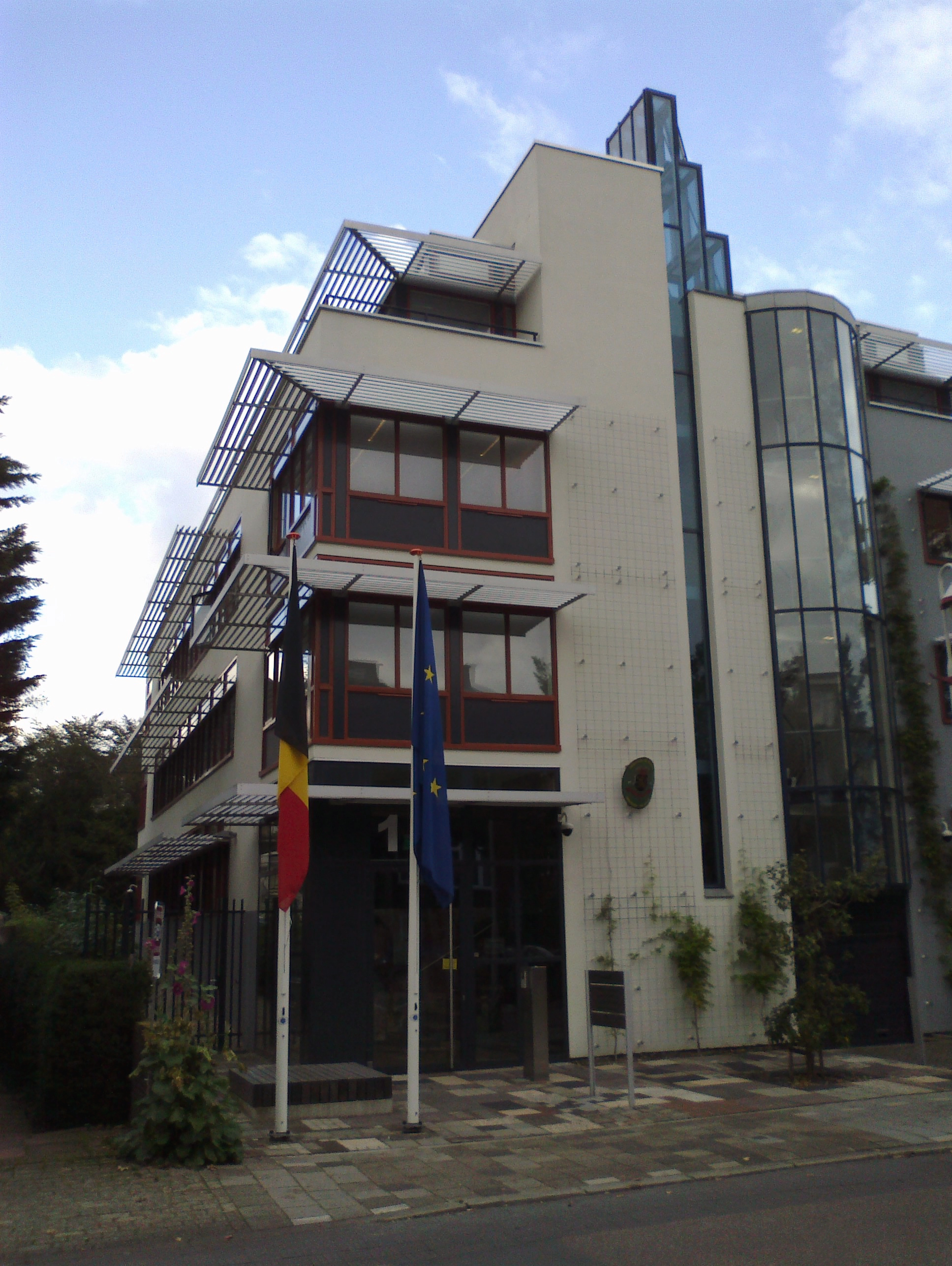 Embassy of Belgium, Johan van Oldenbarneveltlaan 11, The Hague, the Netherlands.